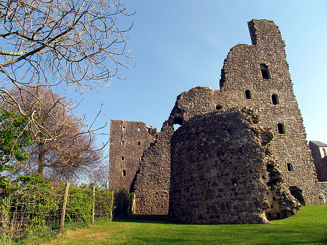 Dovecote at Oxwich Castle